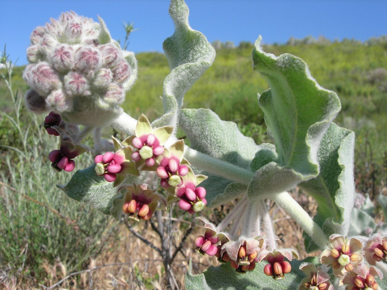 Asclepias californica